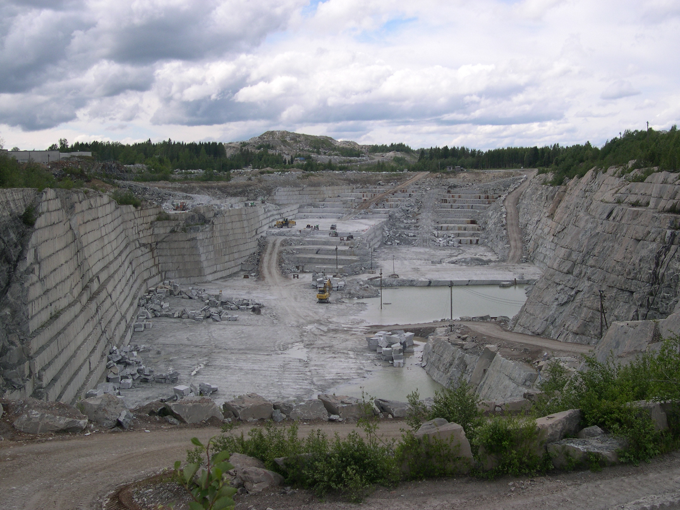 Mammuttistone in Finland